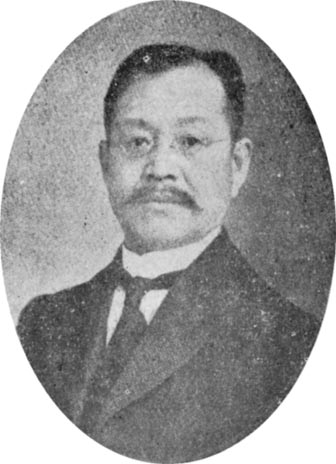 Mr. Tsunezō Morioka.